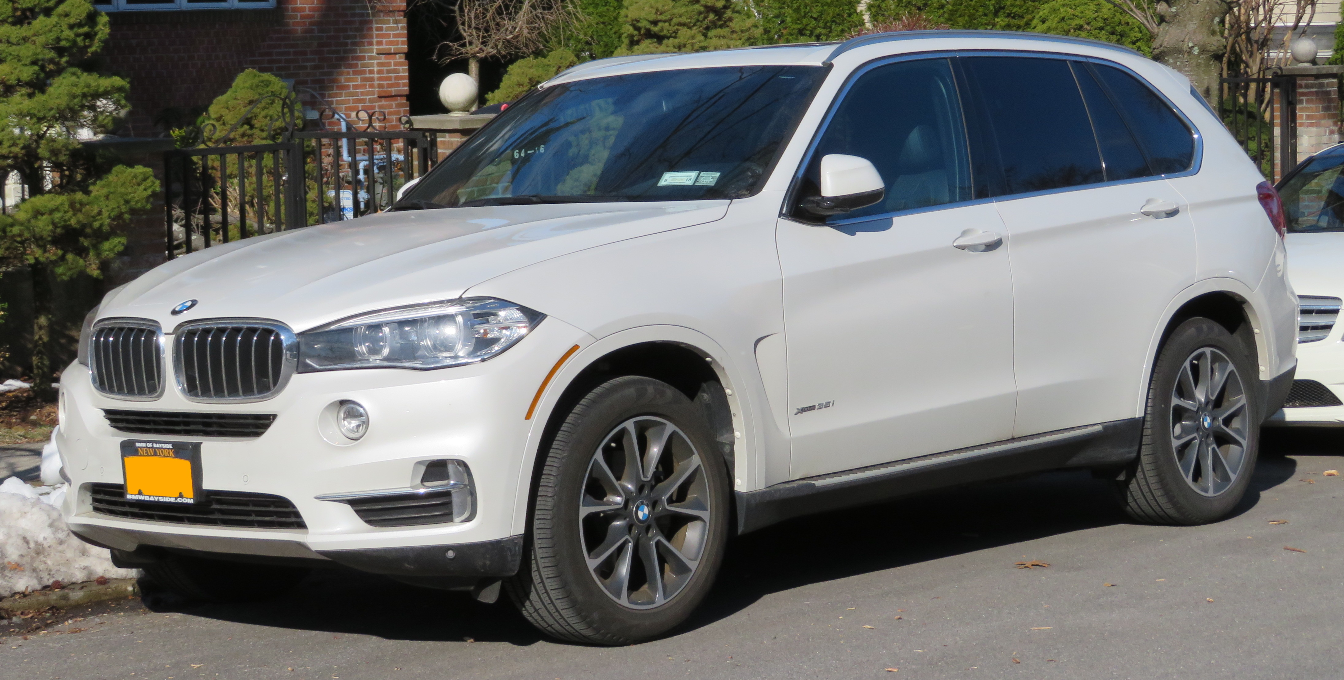 In Queens, New York